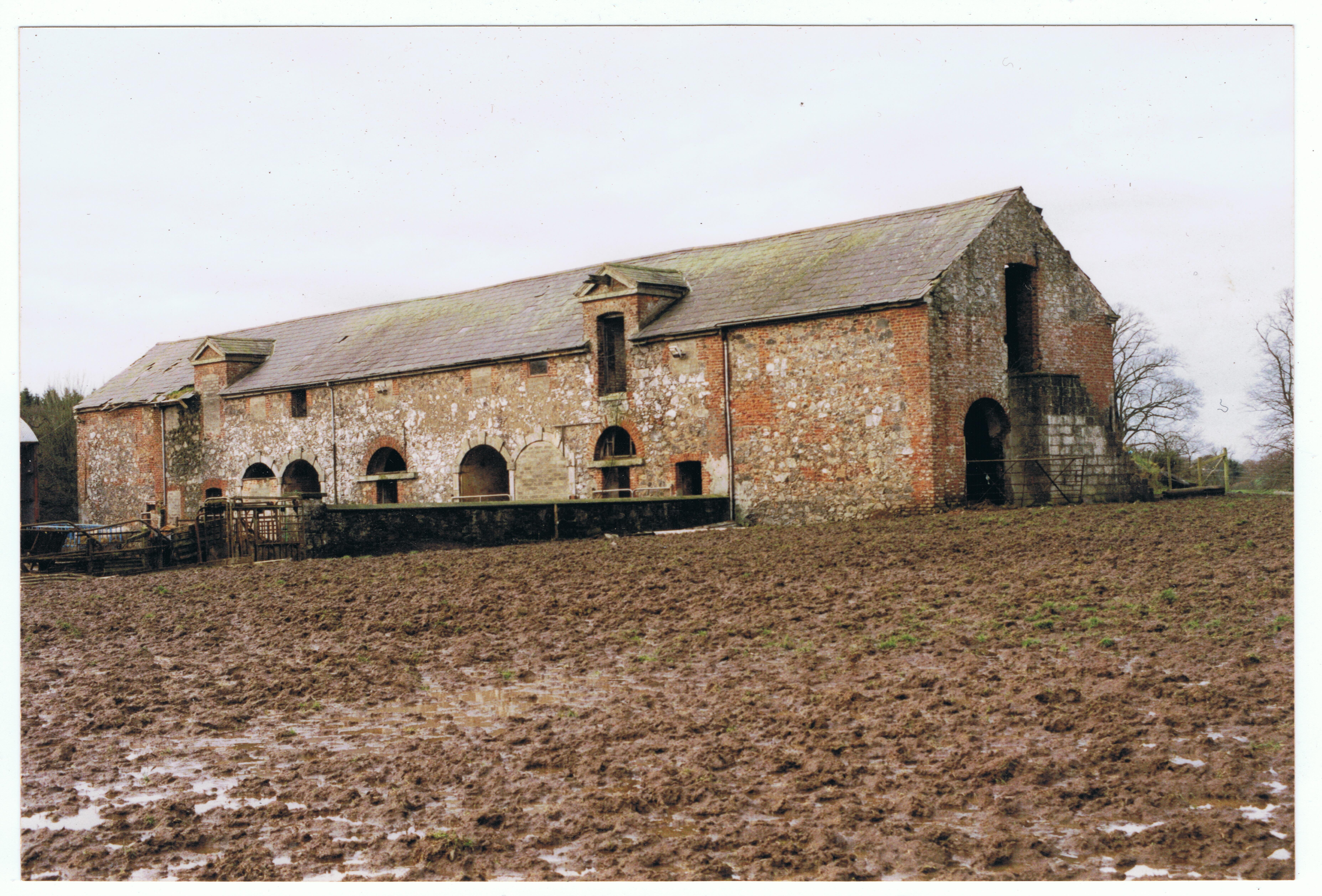 Scan of a photo (photo & scan by me, R. de Salis, Rodolph (talk) 21:51, 15 February 2015 (UTC)) of the stable, only surviving part of Gill Hall, Dromore, County Down, Ireland, January 2002.